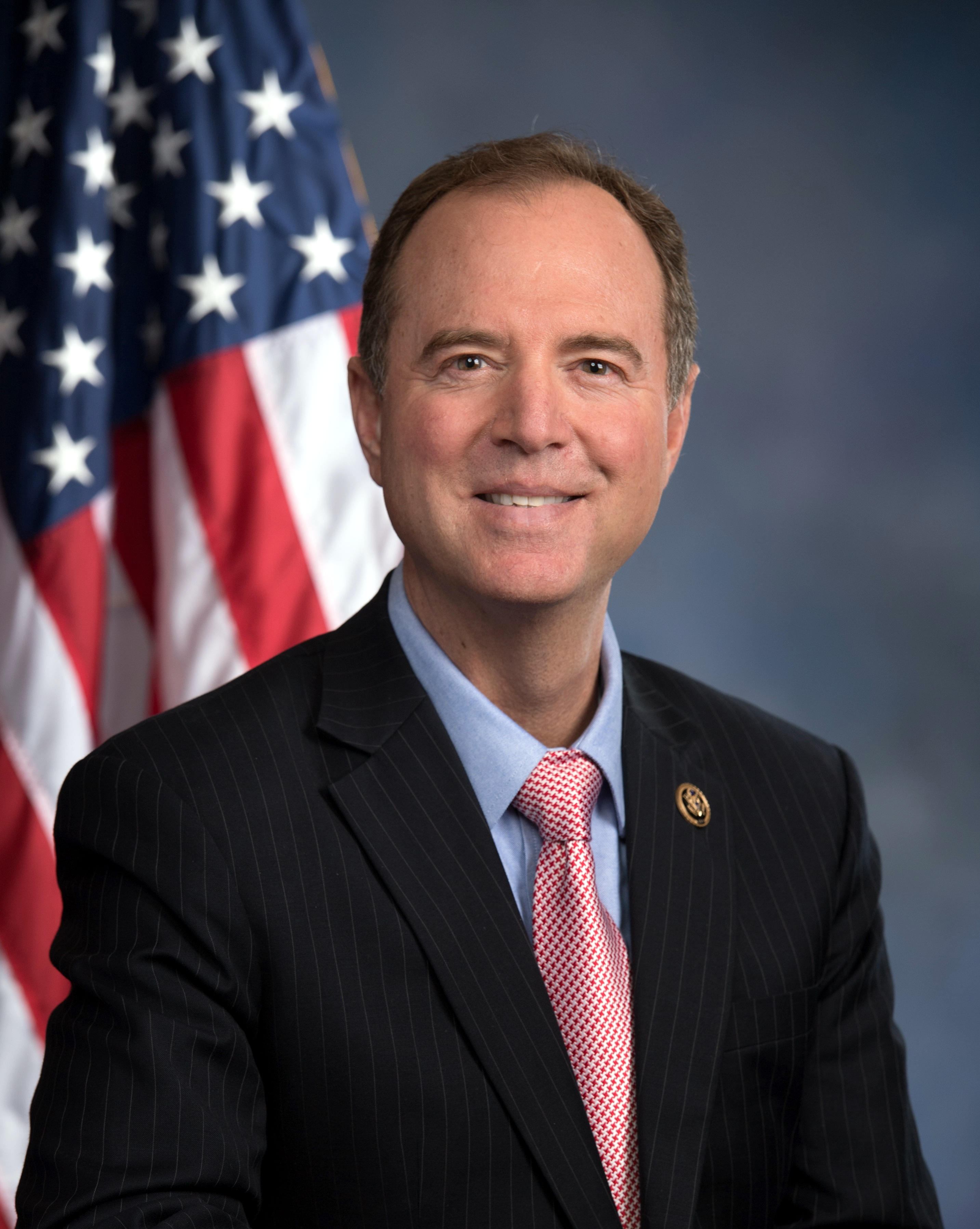 Adam Schiff official portrait